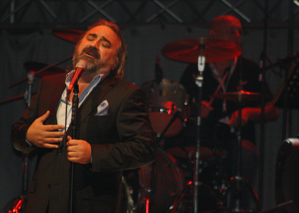 Volkan Konak, October 2011.